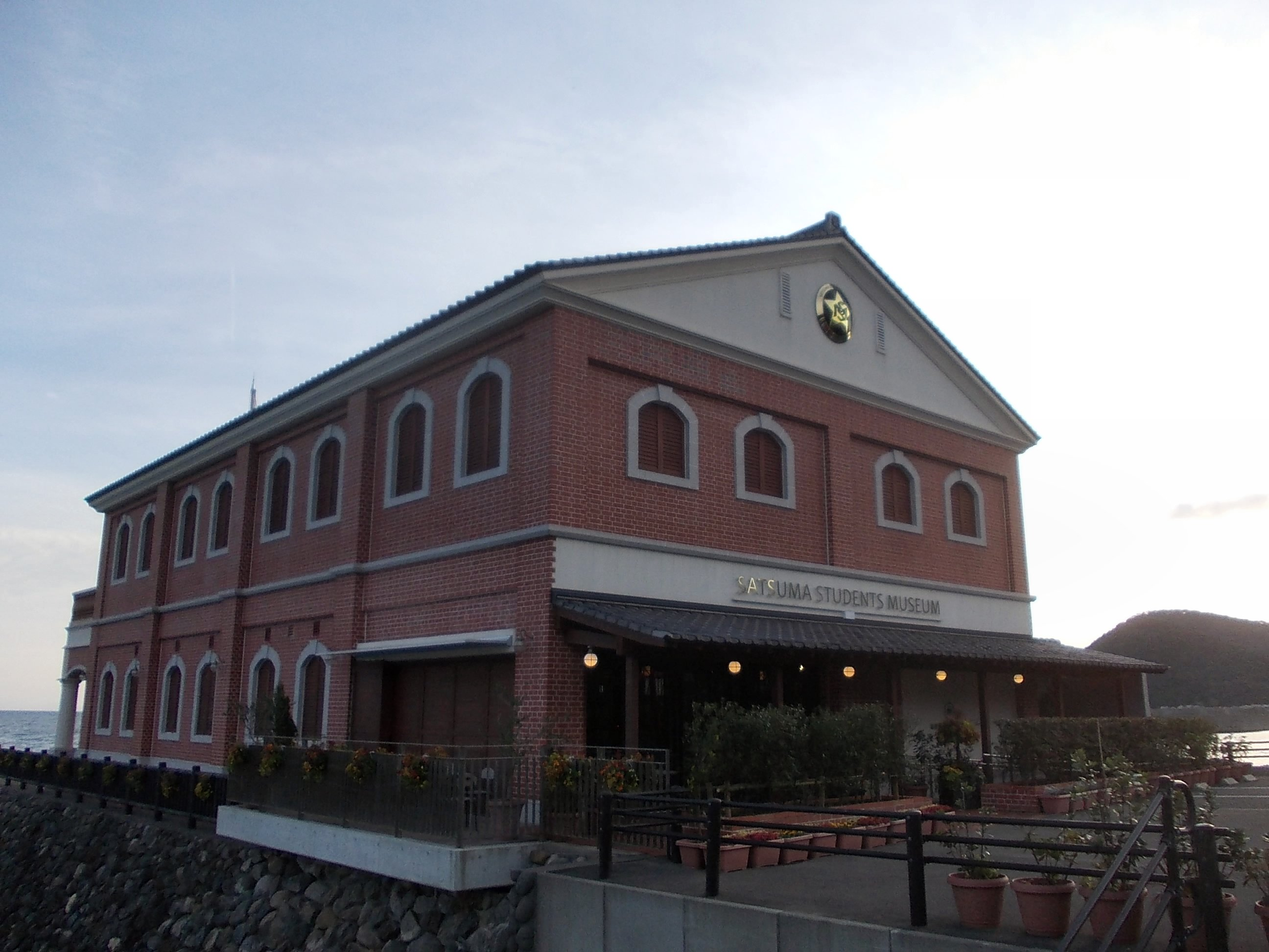 Satsuma Students Museum, Ichikikushikino, Kagoshima, Japan